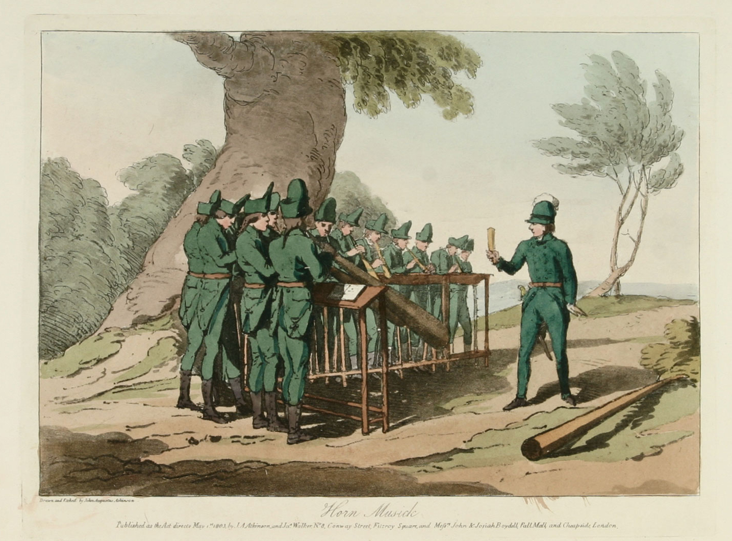 russian musicians, playing horns